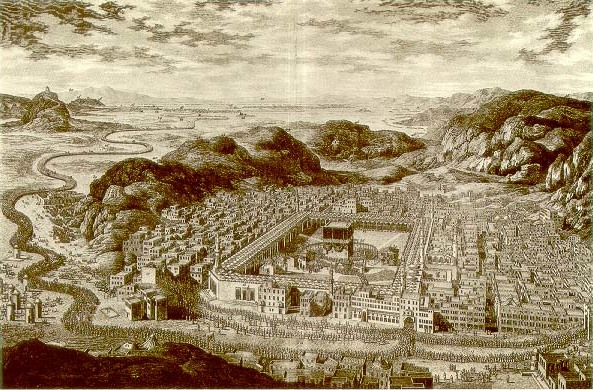 Engraving of Mecca